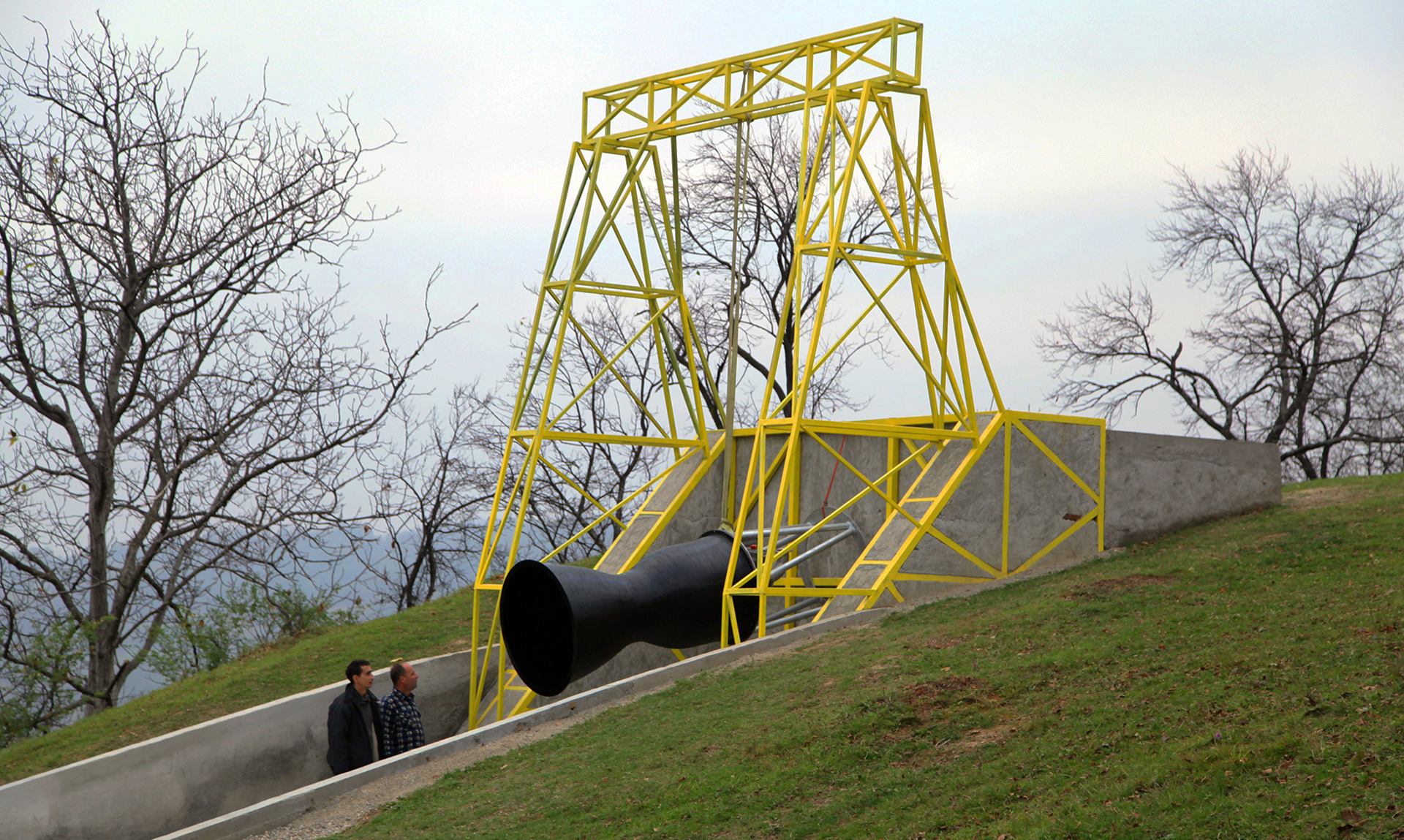 Executor rocket engine testing installation